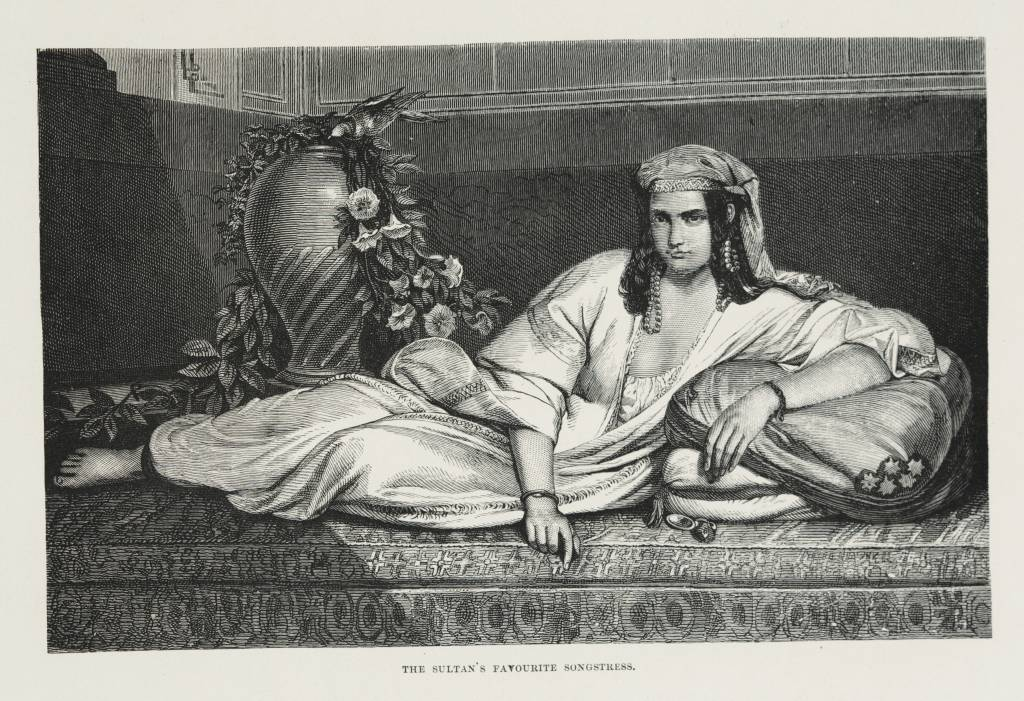 The Almeh, after a painting by Édouard de Biefve of 1842.